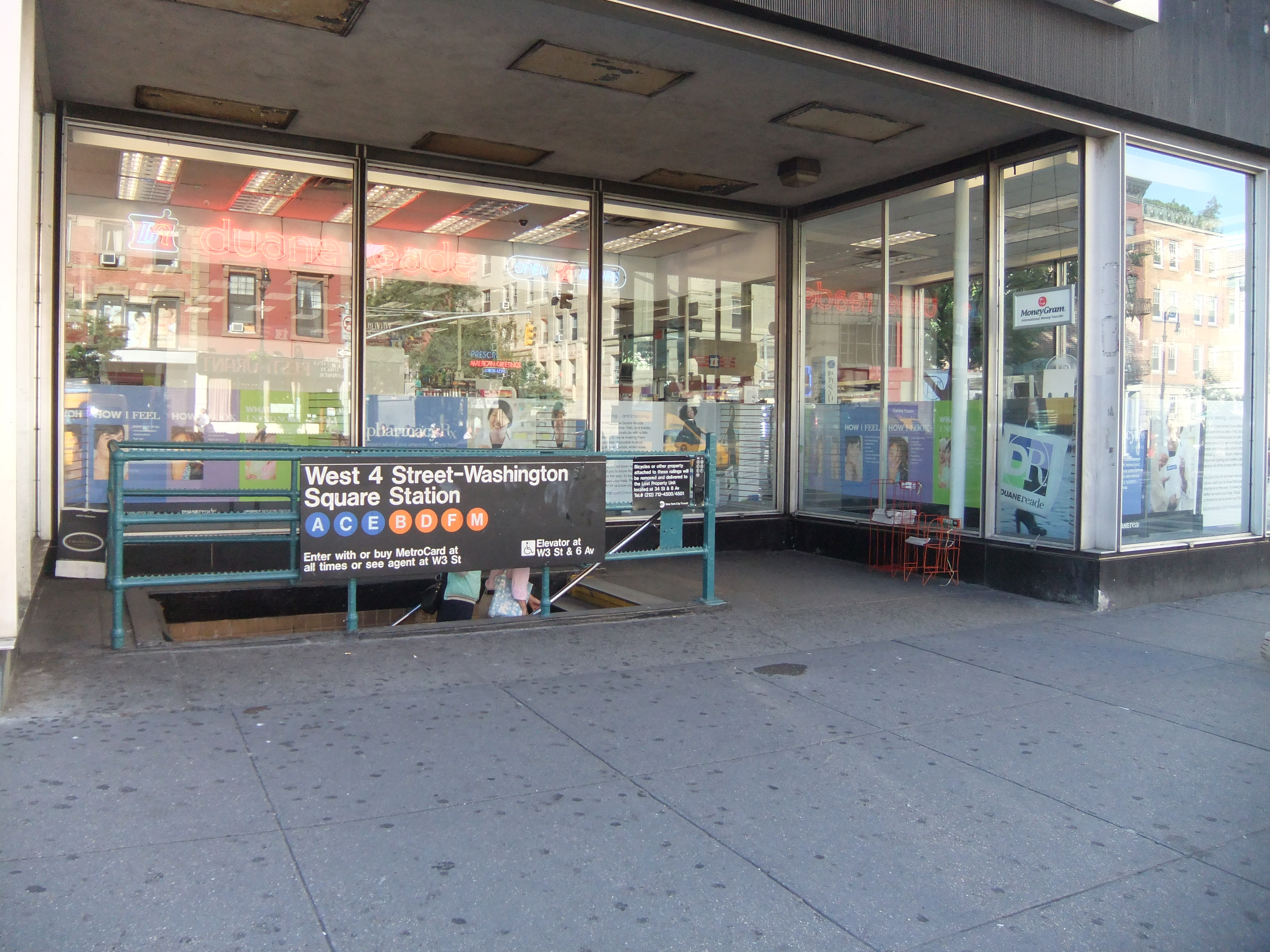 Exit in front of a Duane Reade at West 8th Street at 6th Avenue from the West 4th Street - Washington Sq station.